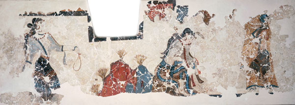 bronze age freso of women that are interpreted as adorants. Excavation Site of Akrotiri on the Greek island Santorini, building Xeste 3, found above a basin that is seen a adyton.